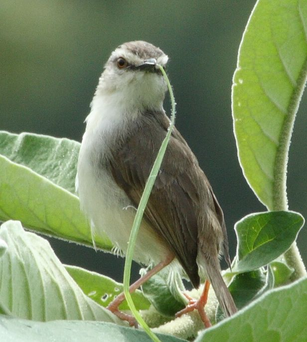 Tawny-flanked Prinia (Prinia subflava)